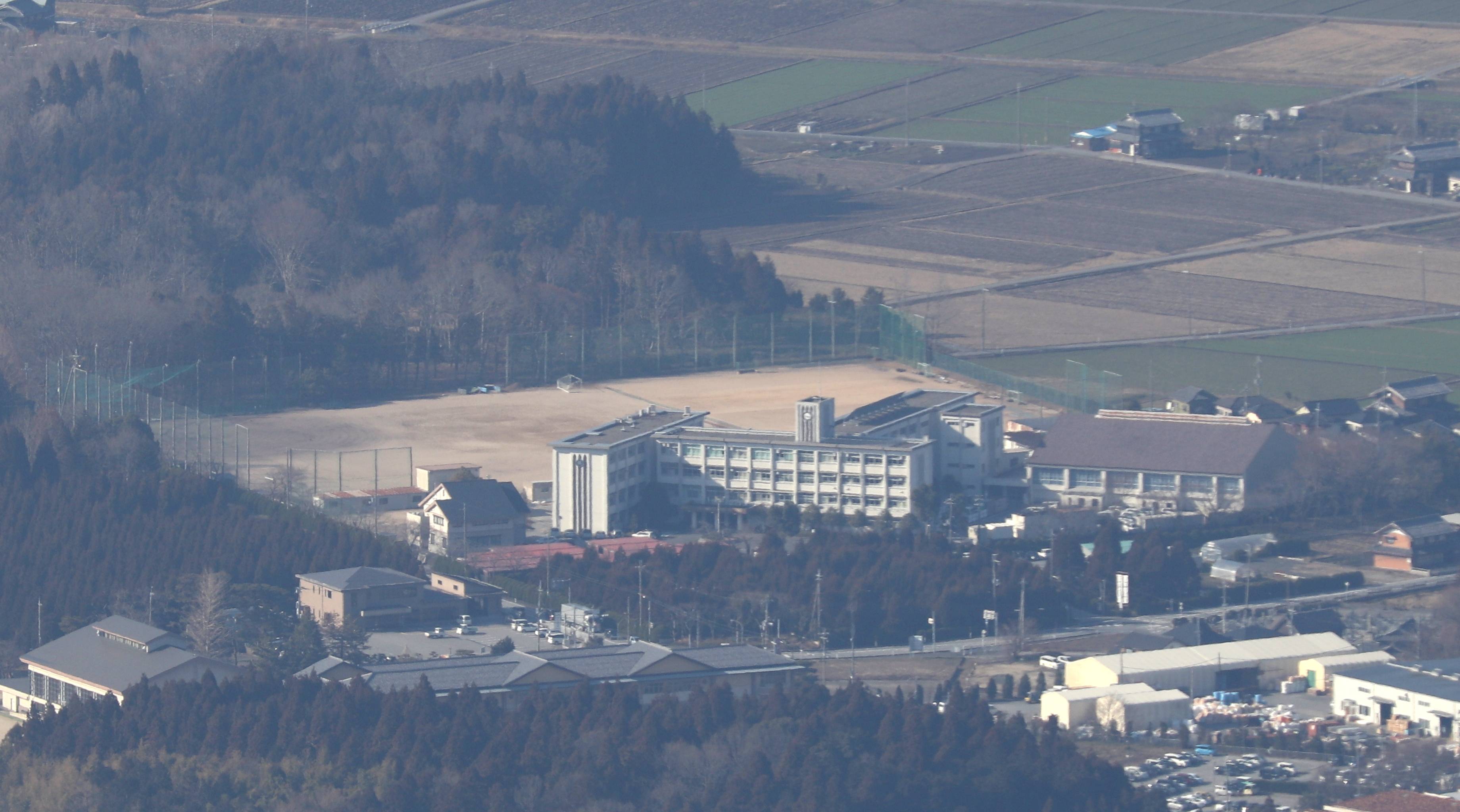 Shiga Prefectural Ibuki high school seen from Mount Ibuki in Maibara, Shiga Prefecture, Japan. Canon EOS Kiss X9